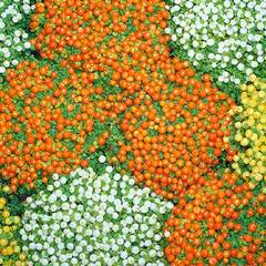 nertera